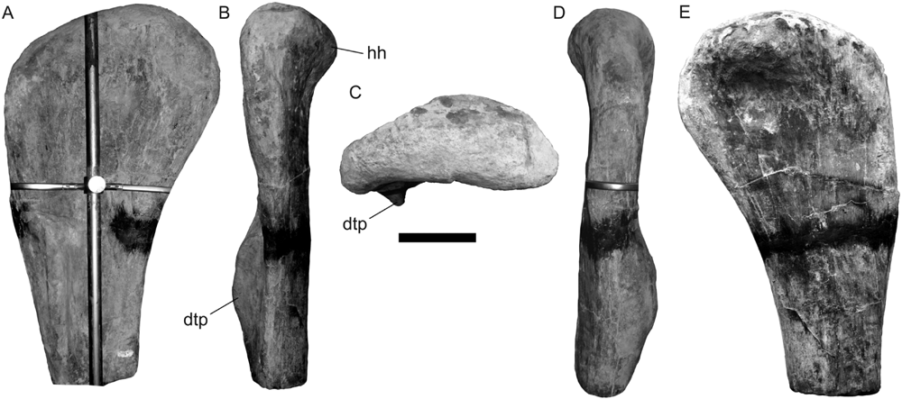 Lusotitan atalaiensis. Photographs of right humerus (proximal half) in (A) anterior (slightly oblique as a result of mounted position), (B) medial, (C) proximal, (D) lateral, and (E) posterior views. Abbreviations: dtp, deltopectoral crest; hh, humeral head. Scale bar = 200 mm.